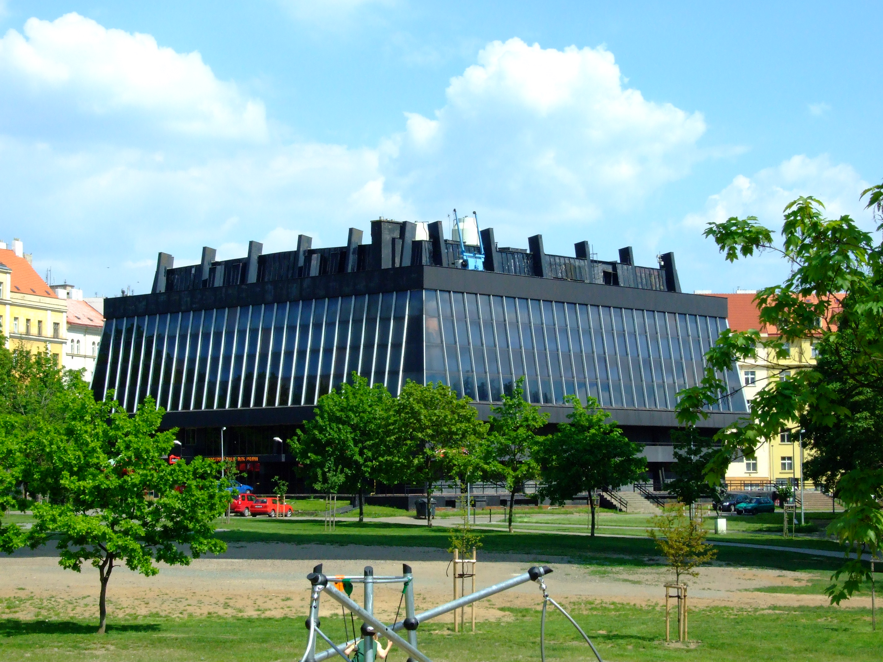 Folimanka park in central-southern Praguehelp